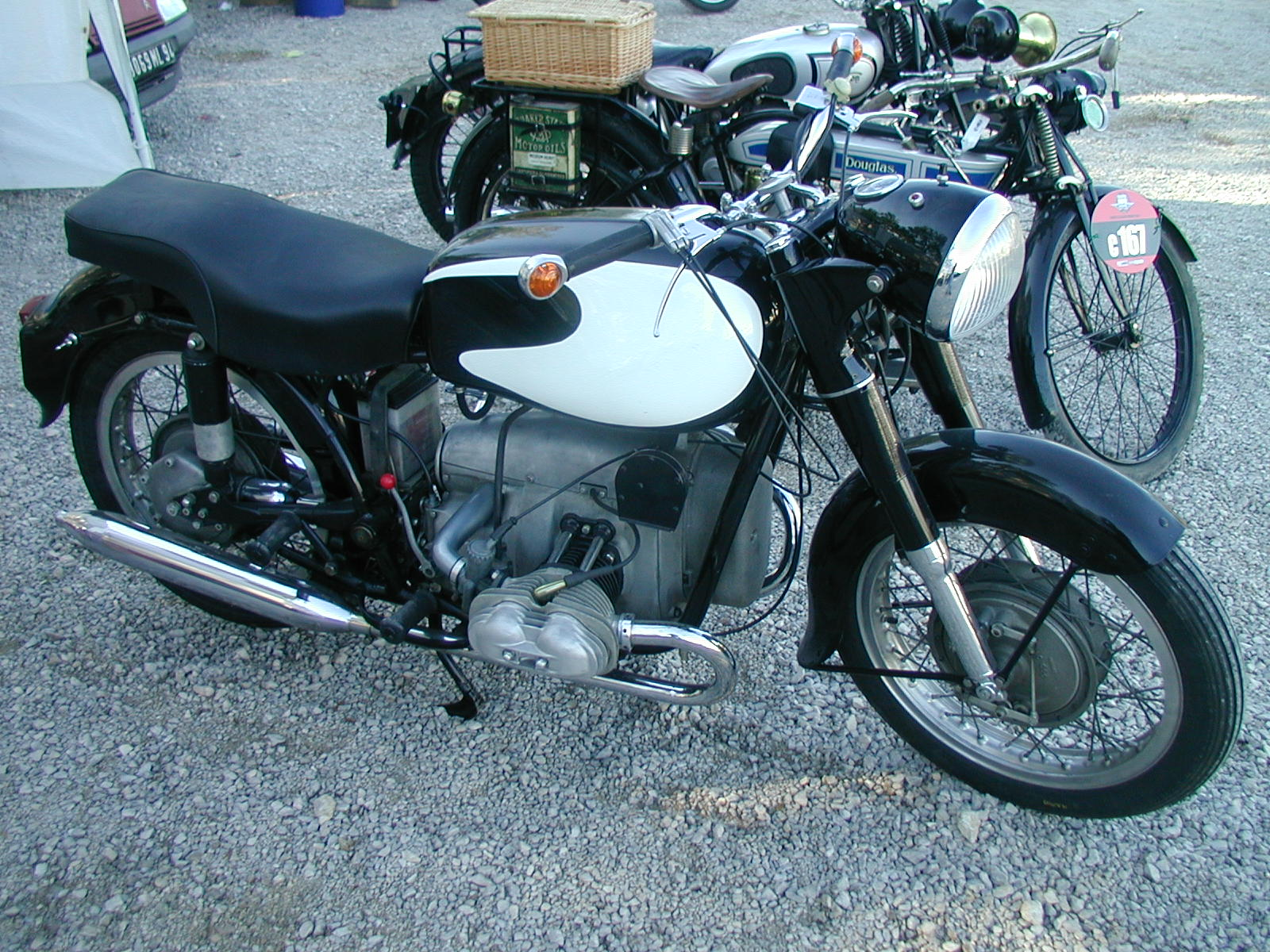 CEMEC : French motorcycle, derived from BMW models. About 1950. Author : Gérard Delafond